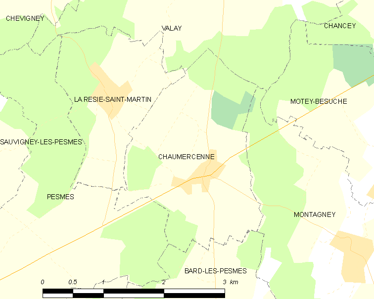 Map of French municipality